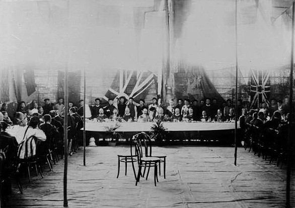 Chinese and British officials at a banquet in 1909 to celebrate the laying of the foundation stone for the Chinese Section at the Canton Terminus (Tai Sha Tou) of the Canton-Kowloon Railway. From Hong Kong Public Records.